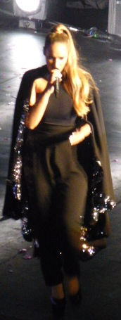 Leona Lewis, Glassheart, Royal Albert Hall, 9th May, Glassheart Tour 2013